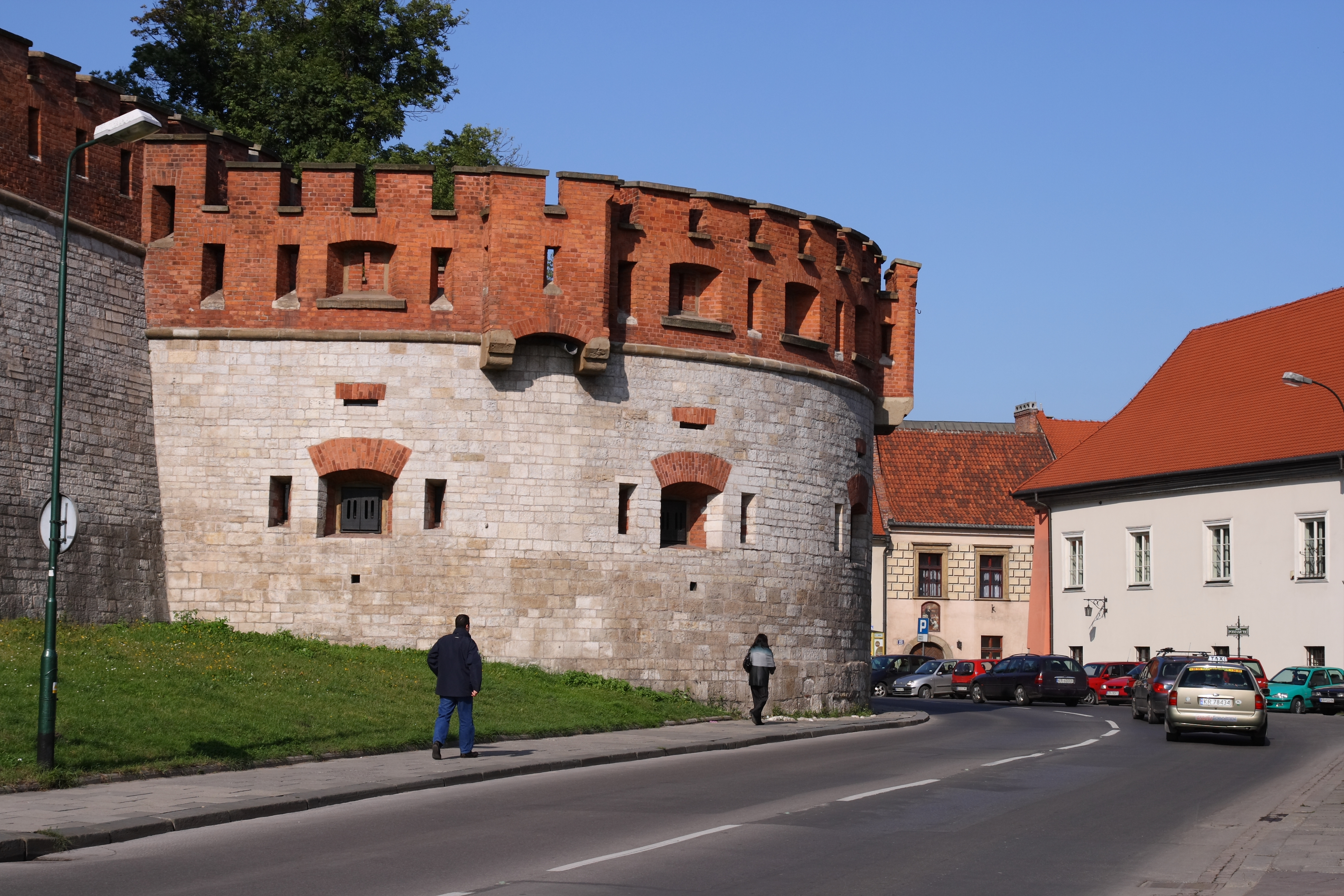 Wawel Defensive Walls in Kraków (Poland).